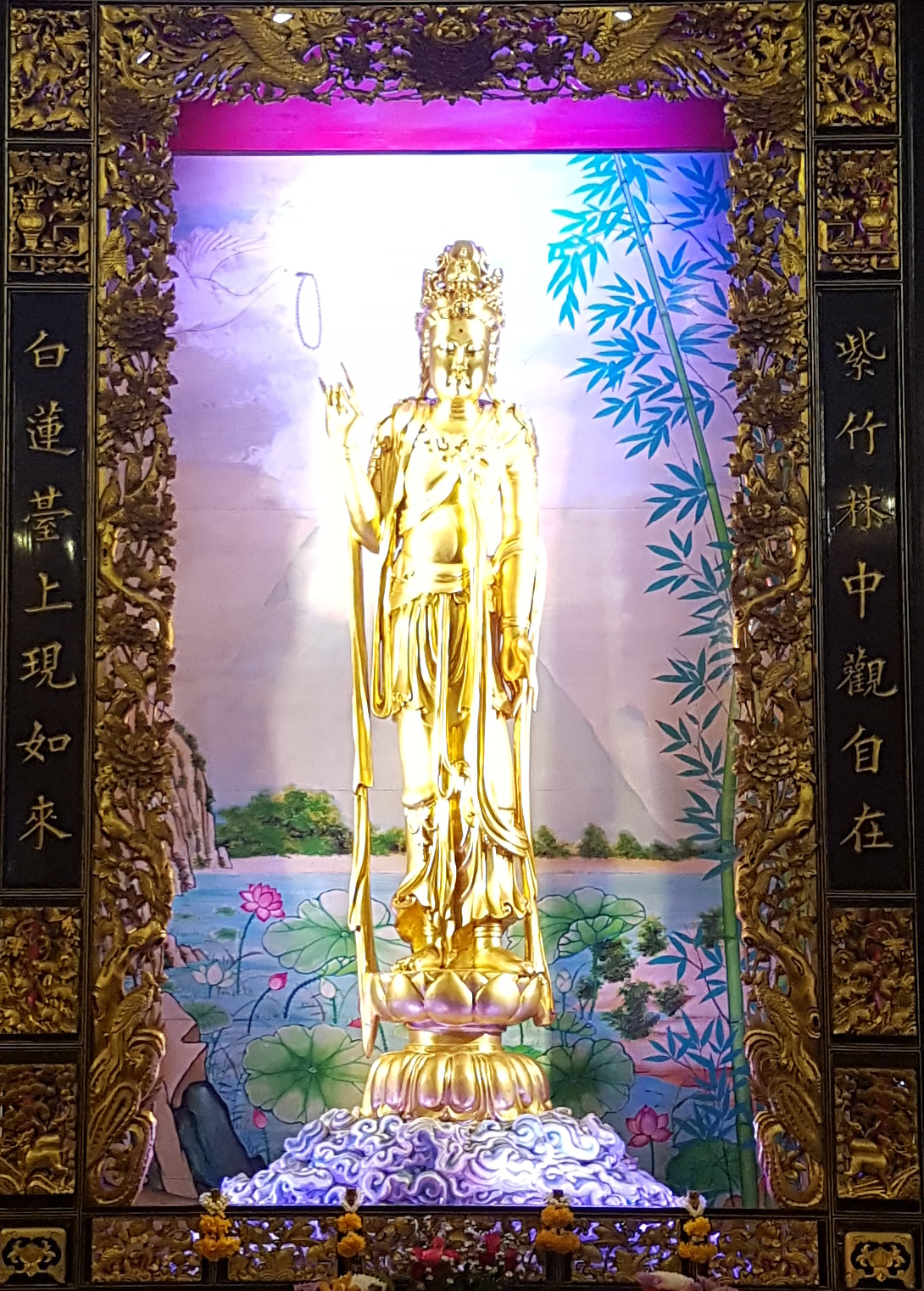 Guanyin Shrine and Thian Fa Foundation Office, Samphanthawong District, Bangkok, Thailand.